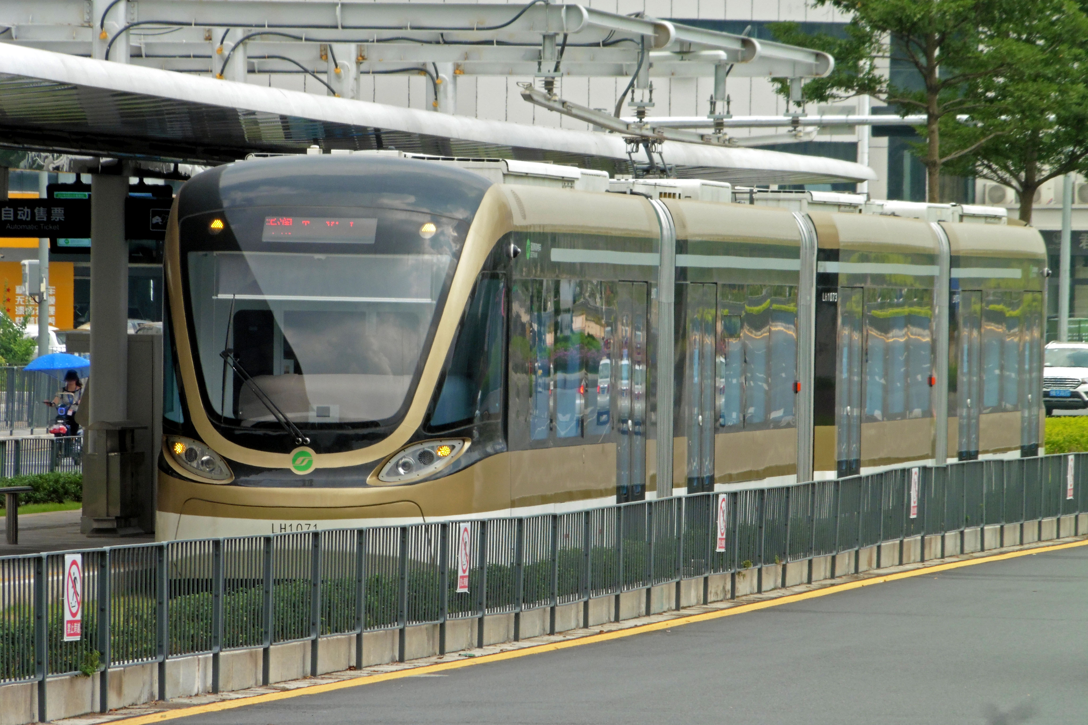 A tram passes through the platform at the tram station, which located in Longhua District, Shenzhen. 中文（中国大陆）: 一辆行驶中的深圳龙华新区有轨电车通过电车站站台